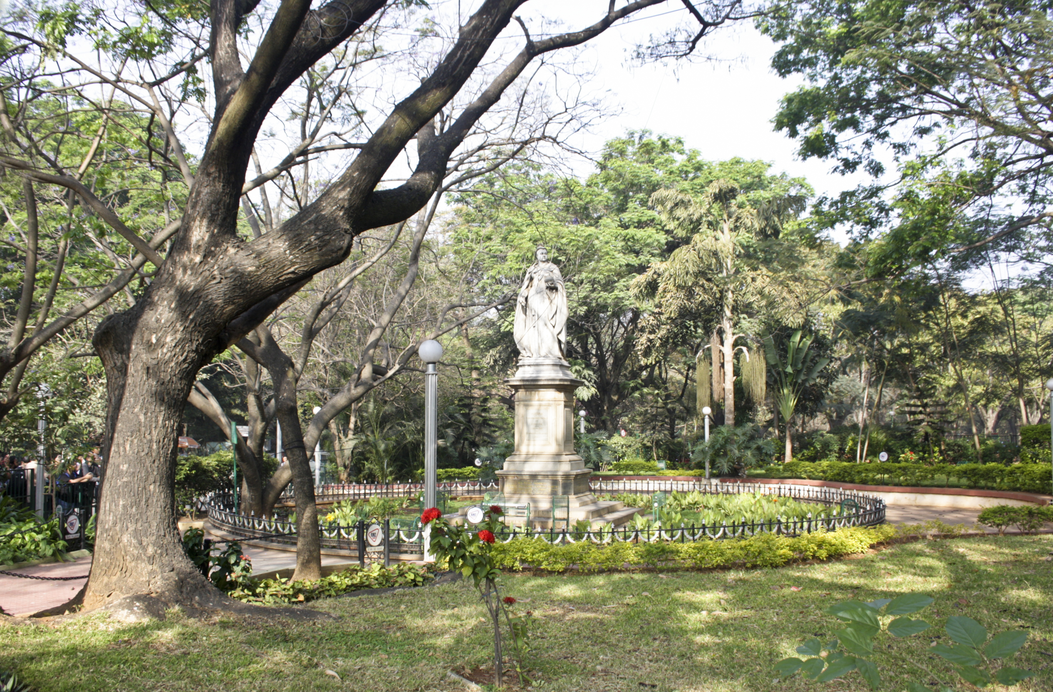 This photo has been taken during the 4th edition of CISA2K "Wikipedia Train-The-Trainer" conference during 20-22 February 2017, Part of Master Class II - Biodiversity Field Trip at Cubbon Park, Bengaluru, Karnataka.